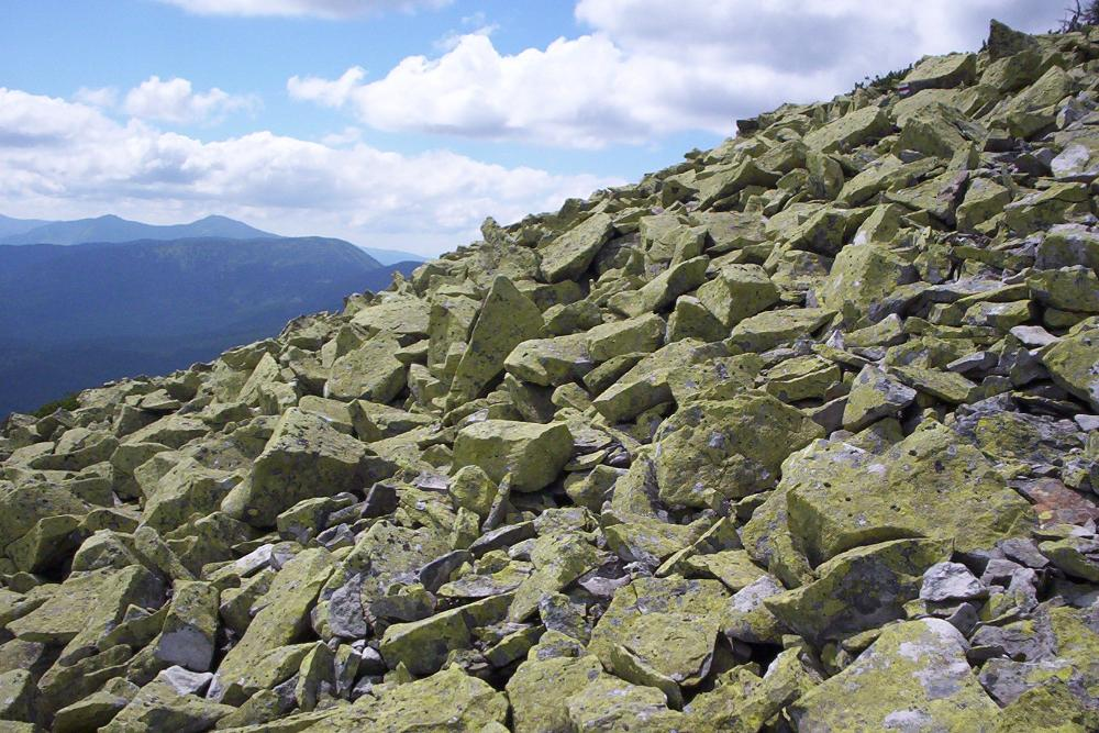 Debris field (gorgan) on Popadia in Gorgany.